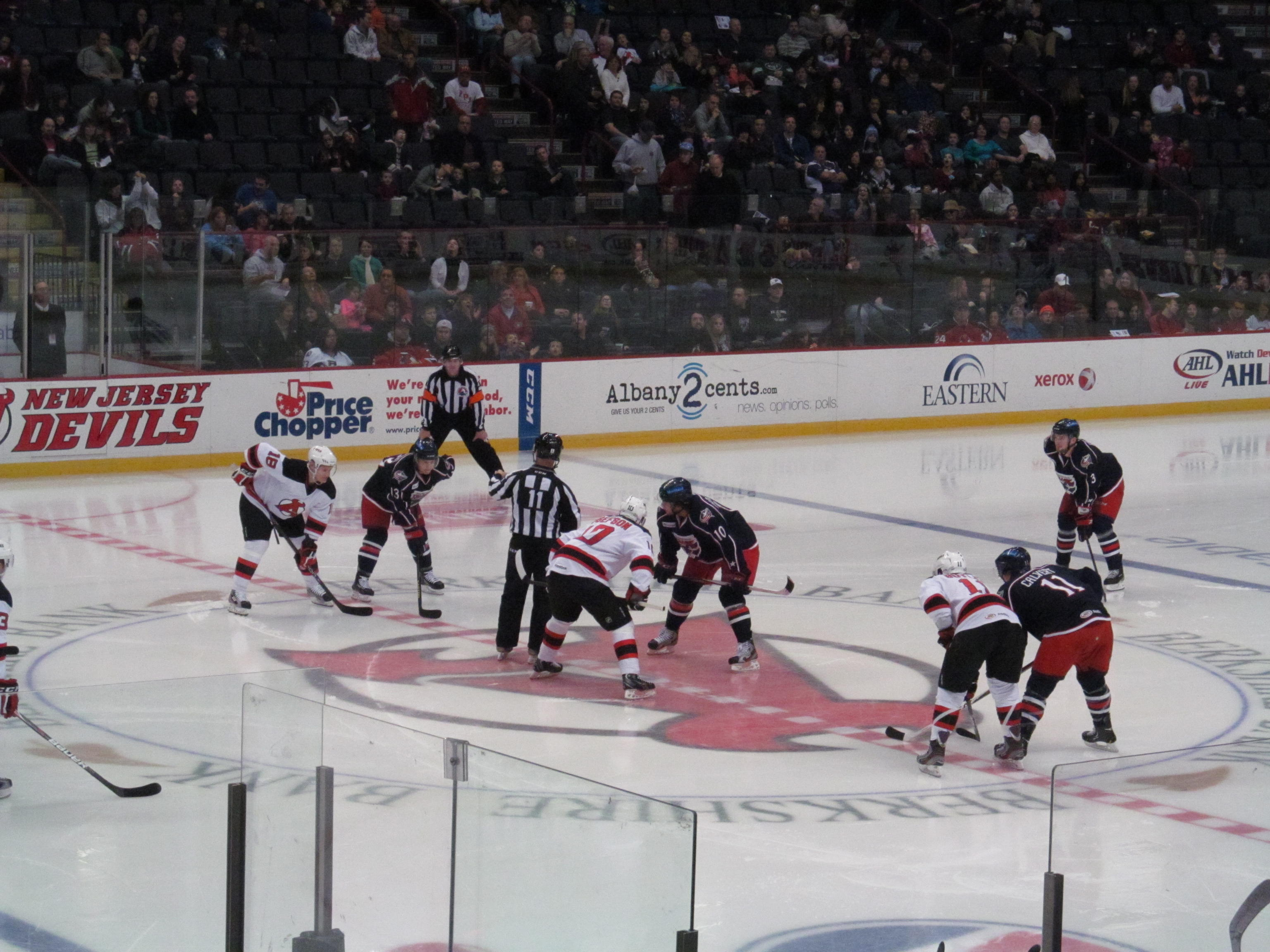 Albany Devils vs. Springfield Falcons - January 5, 2013 - Times Union Center - Albany, New York